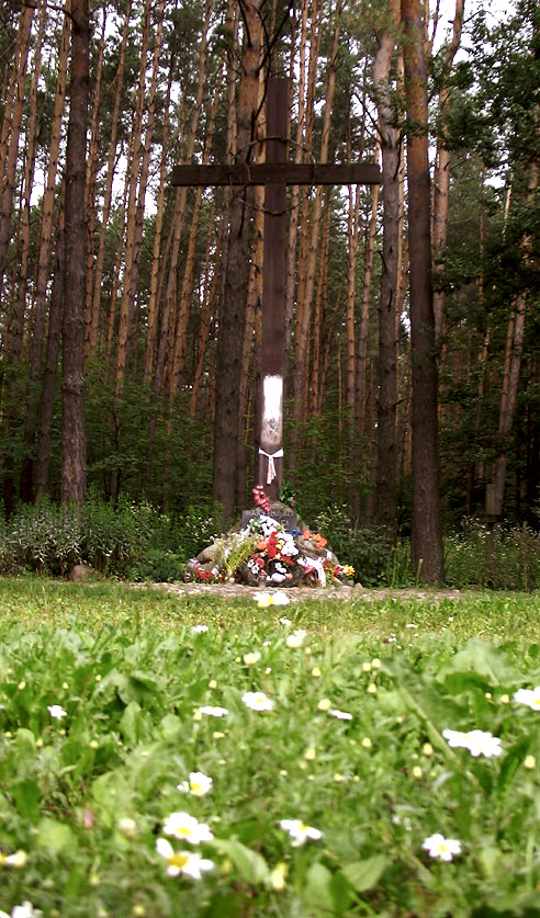 Kurapaty near Minsk is the place where mass executions of Belarusian civilians were carried out during the Stalin regime (1937 - 1941) Беларуская (тарашкевіца): Урочышча Курапаты пад Менскам — месца масавых расстрэлаў і пахаваньняў беларускіх цывільных асобаў, зьдзейсьненыя падчас сталінскіх рэпрэсіяў у 1937—1941 гадох